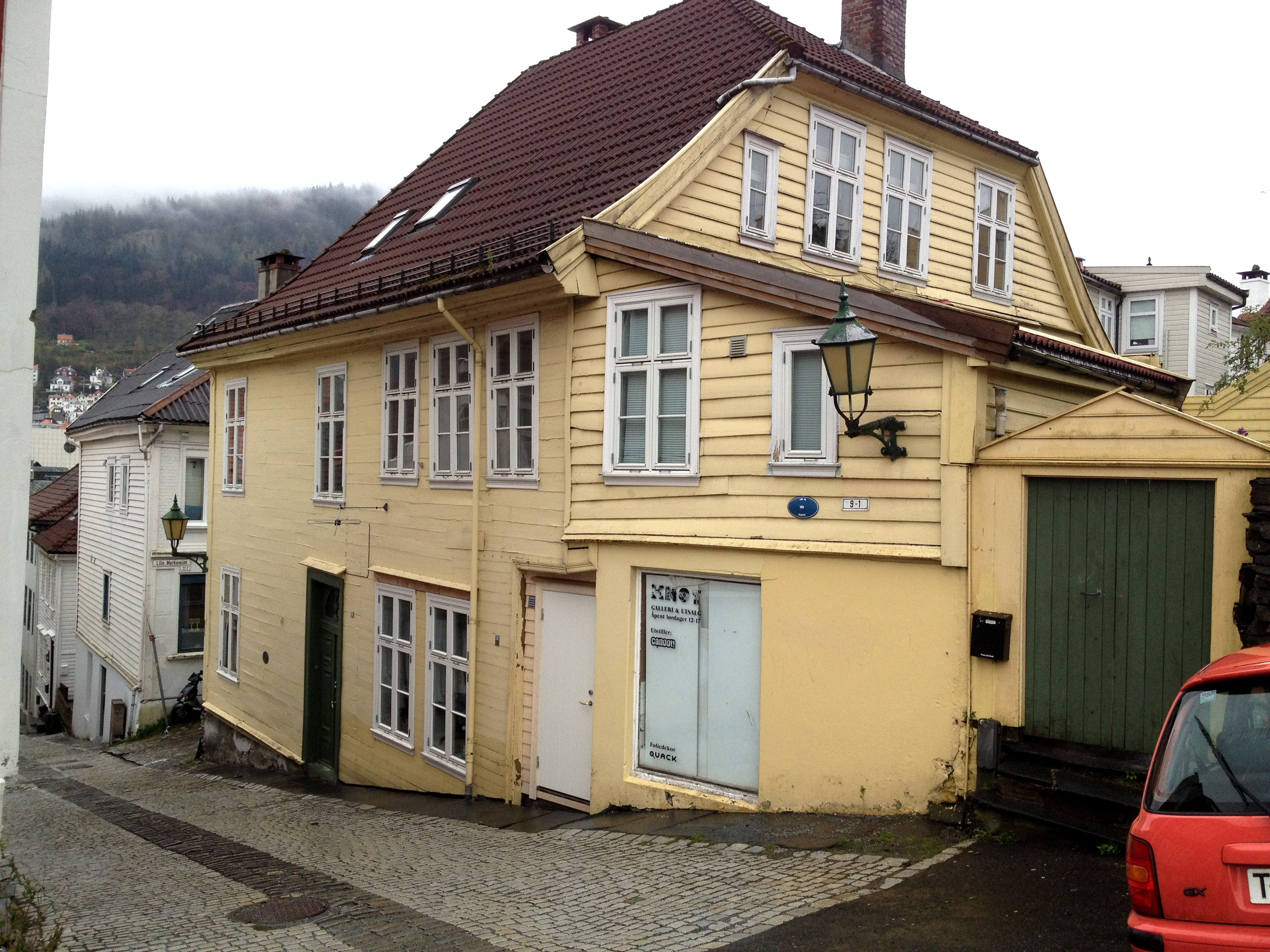 Cort Piilsmuget 1 in Bergen, Norway. The former home of Amalie Skram